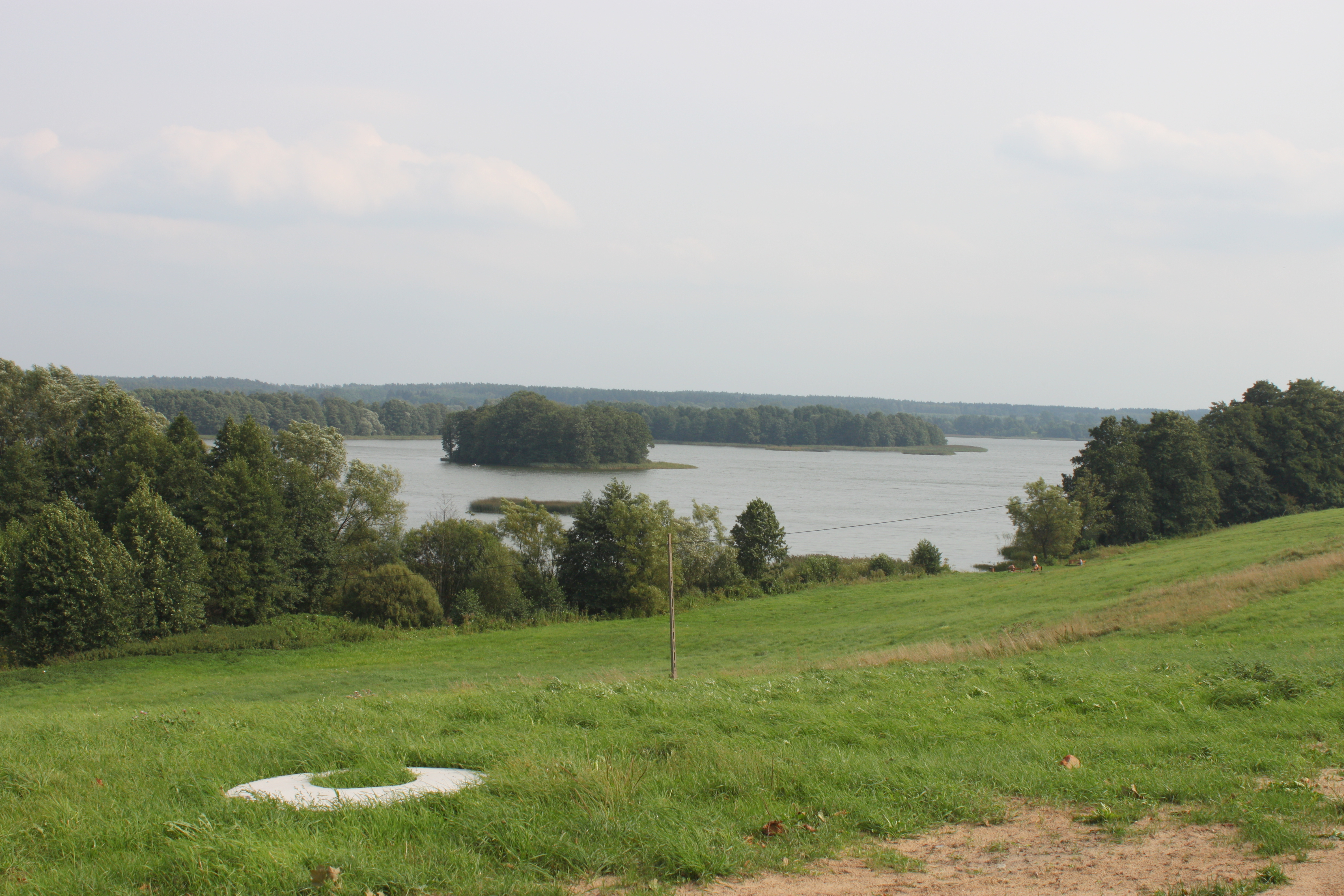 Rańskie Lake from Zalesie.